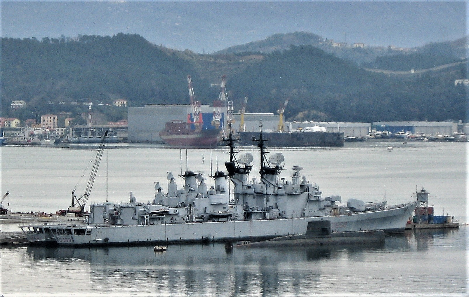 Italian destroyers Ardito (D 550) and Audace (D 551) in La Spezia